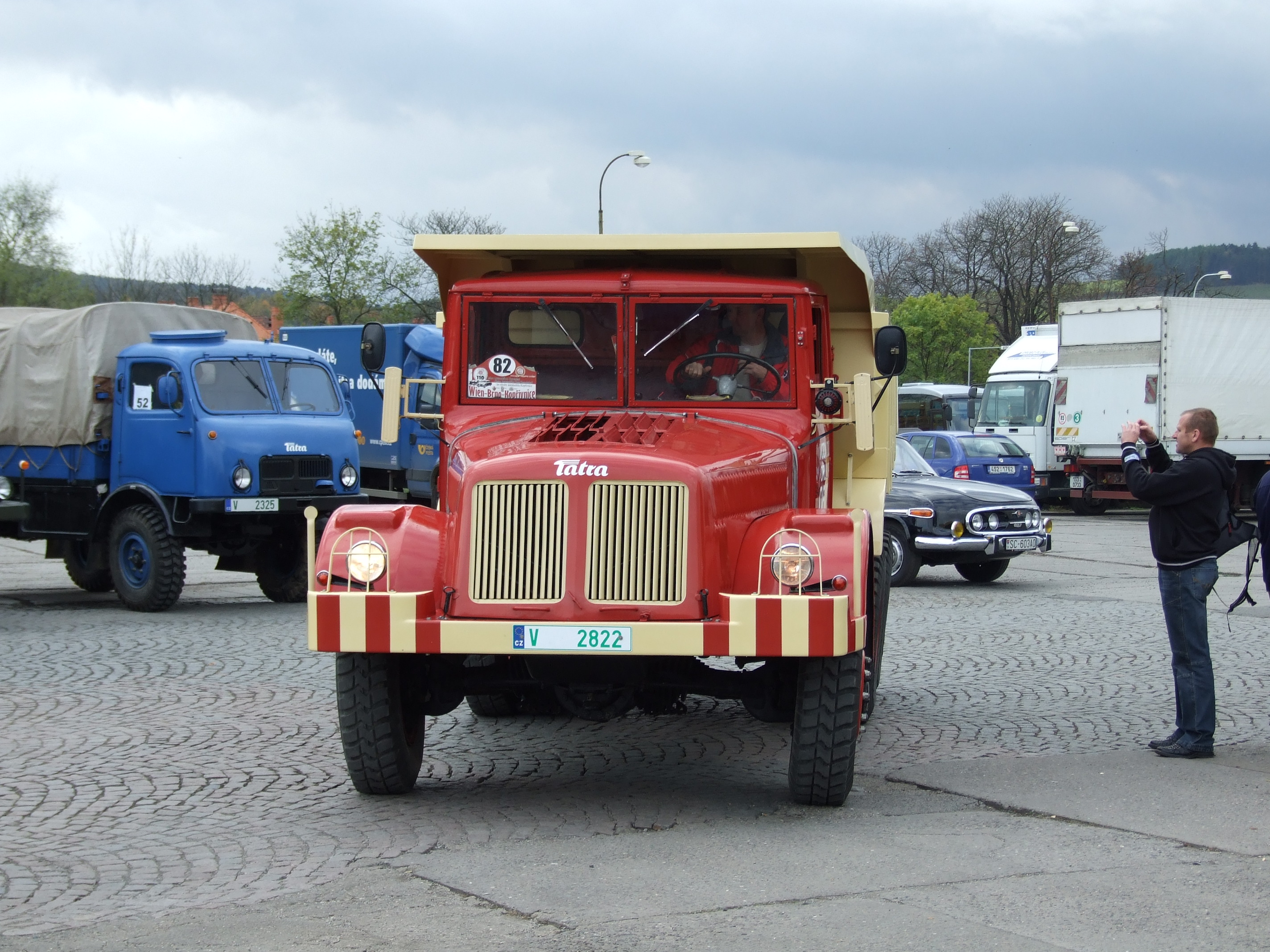 Truck Tatra 147